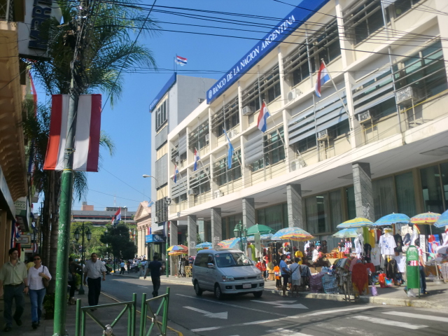 Palma Street